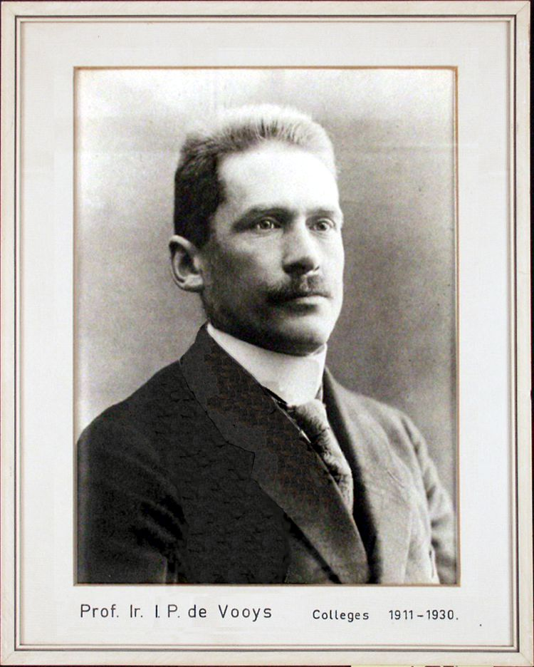 Prof. Ir. I.P. de Vooys